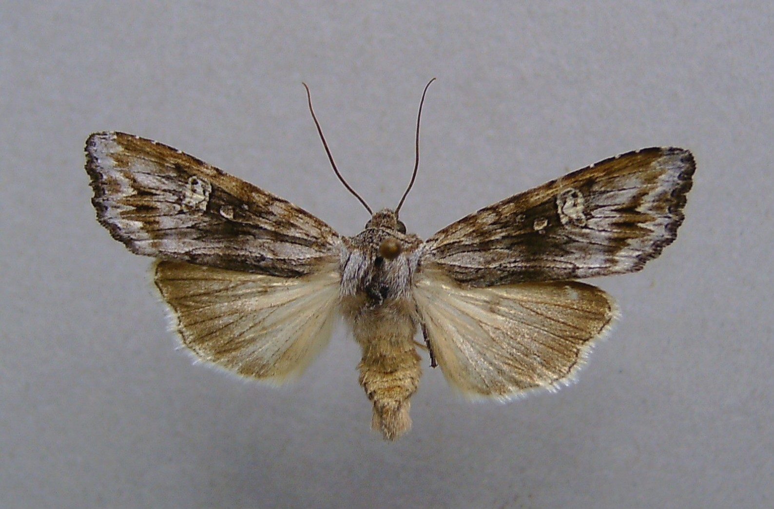 Xylena solidaginis, Pack, Styria Austria